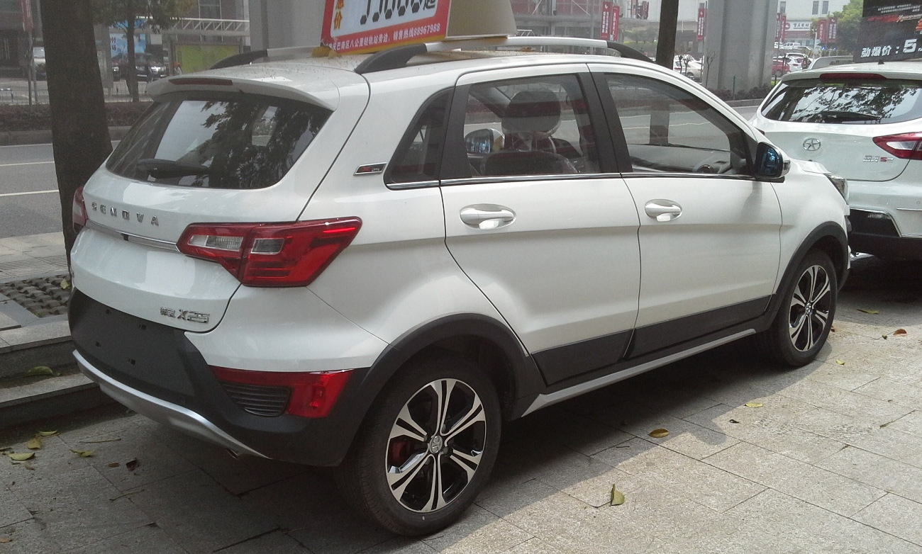 Senova X25 photographed in Chongqing, China.